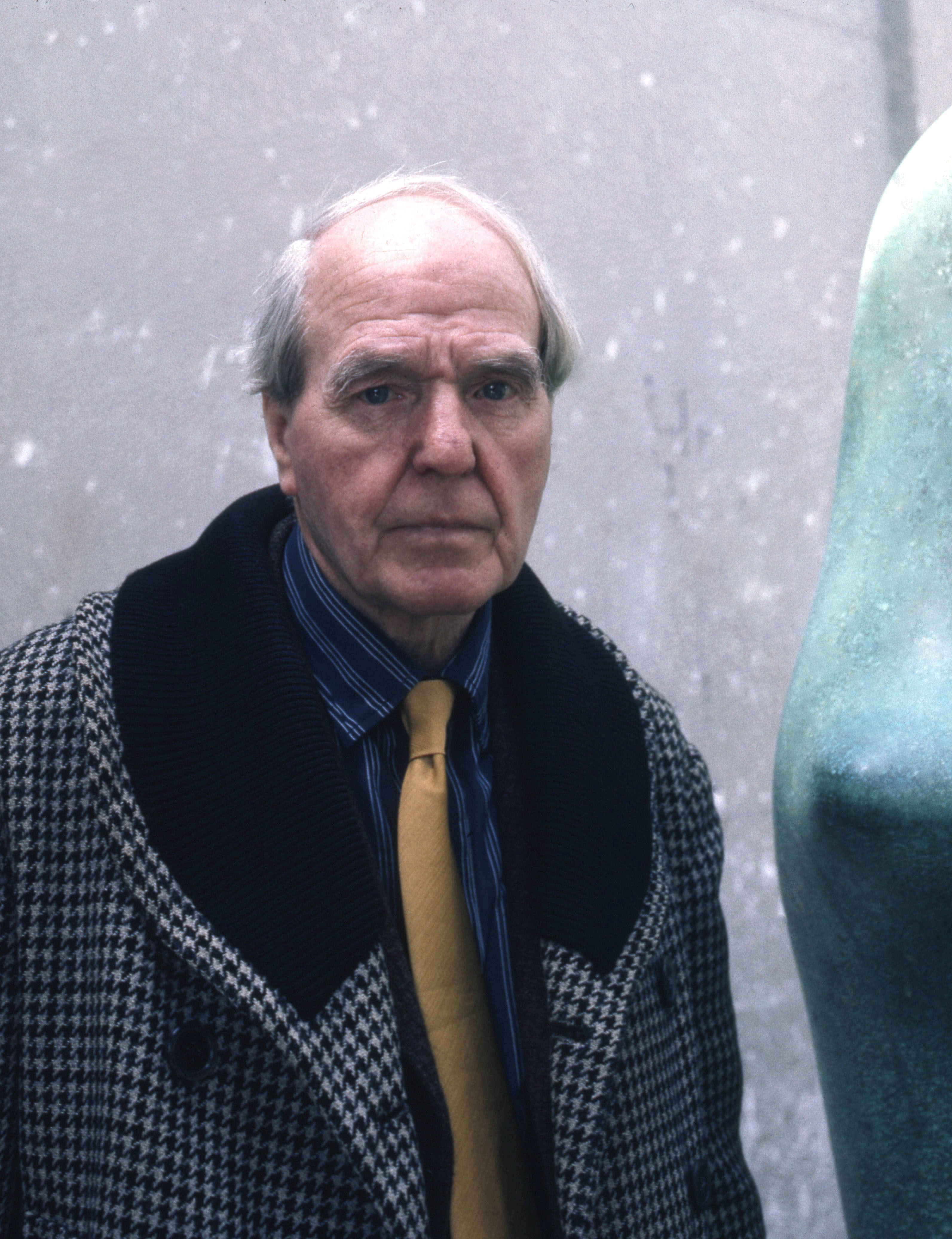 Henry Mooore in his studio England Note This is a reversed or flipped image.